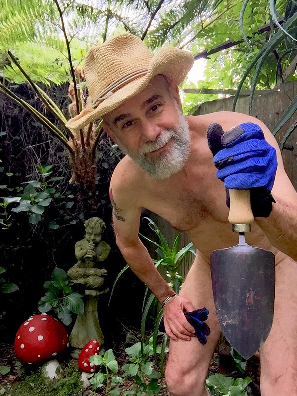 A man participates in World Naked Gardening Day